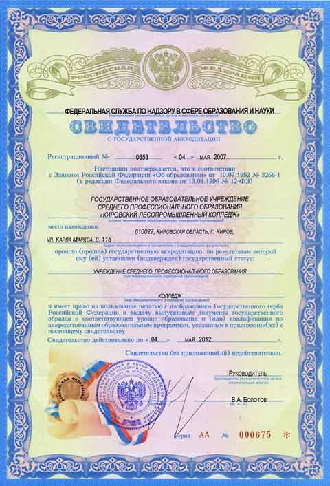 Accreditation of Forestry and Industrial College of Kirov